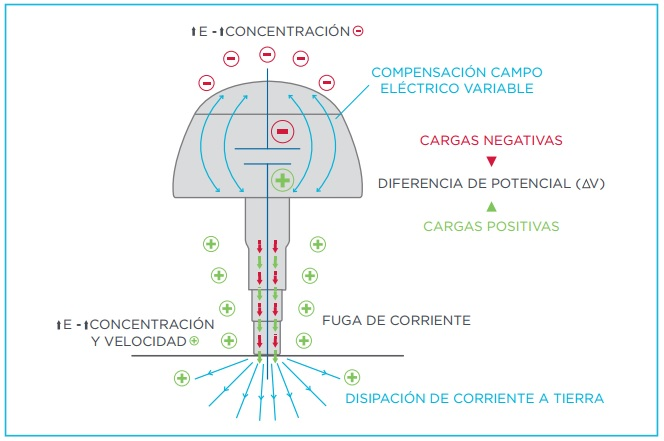 FUNCION DDCE